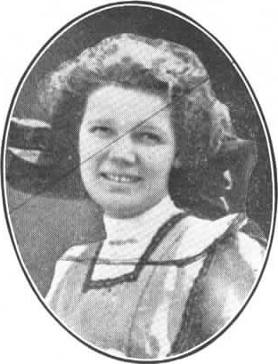 A photograph of Eva Cushman, Alan Hart's college love from 1911 yearbook.